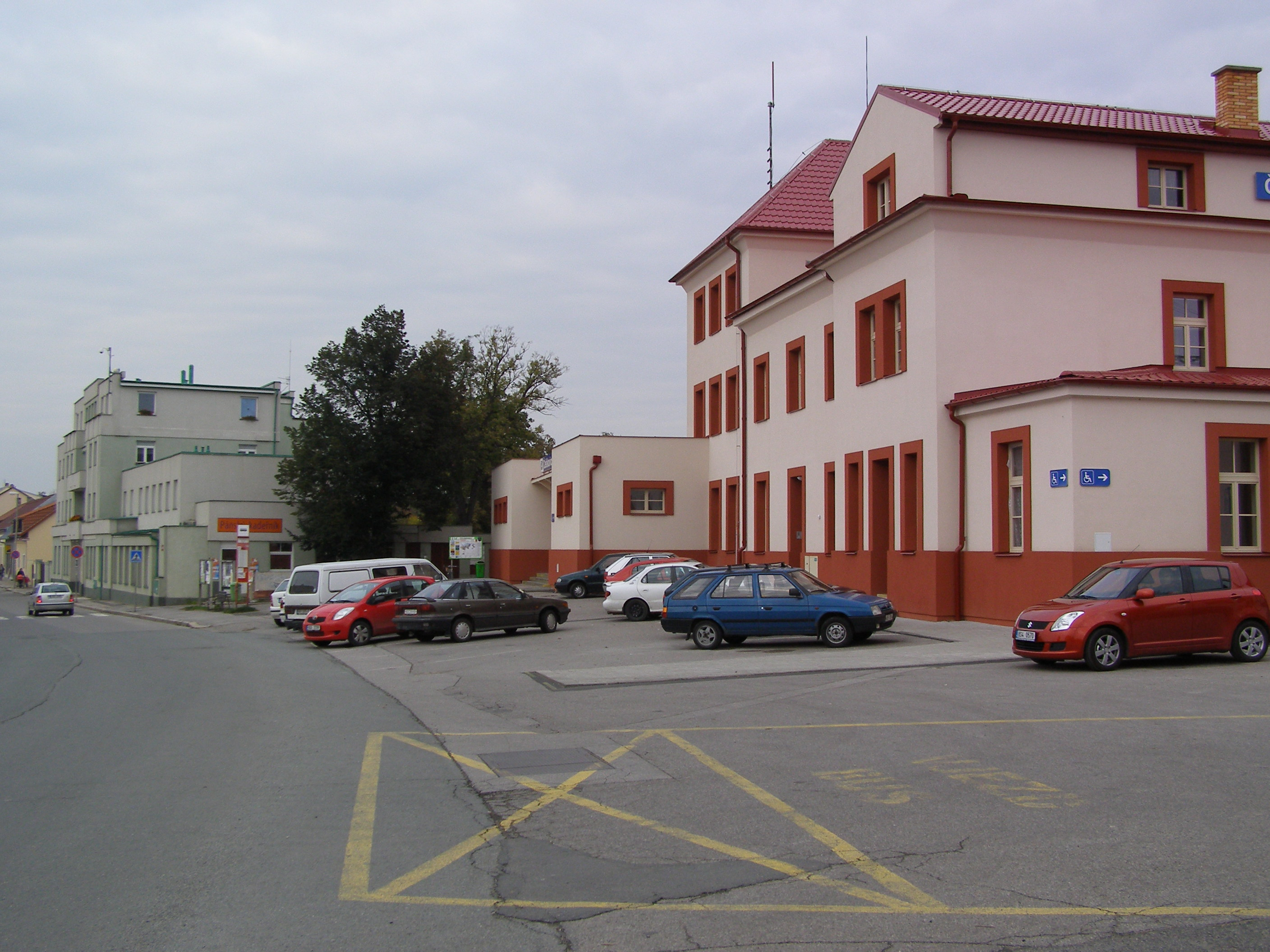 Celakovice - rail station